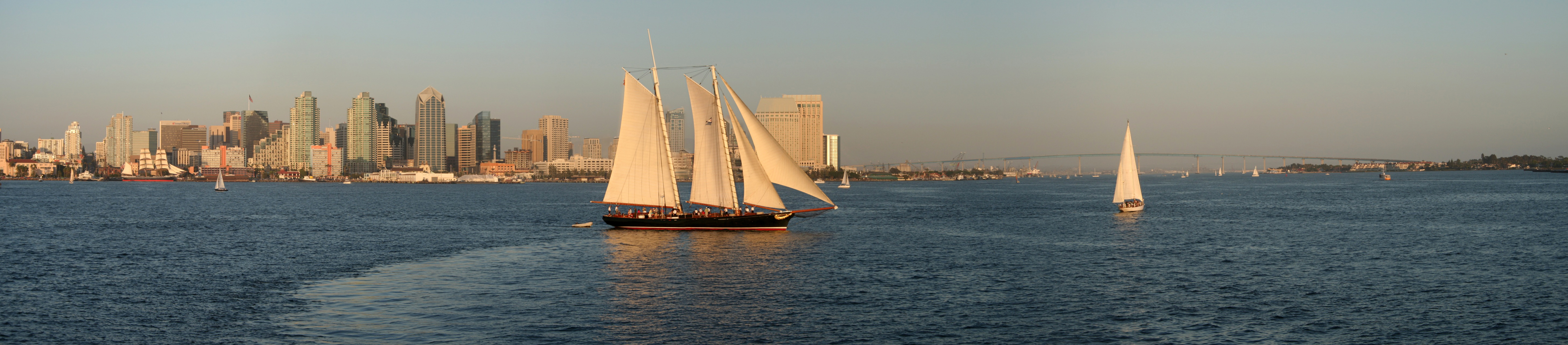 San Diego Skyline